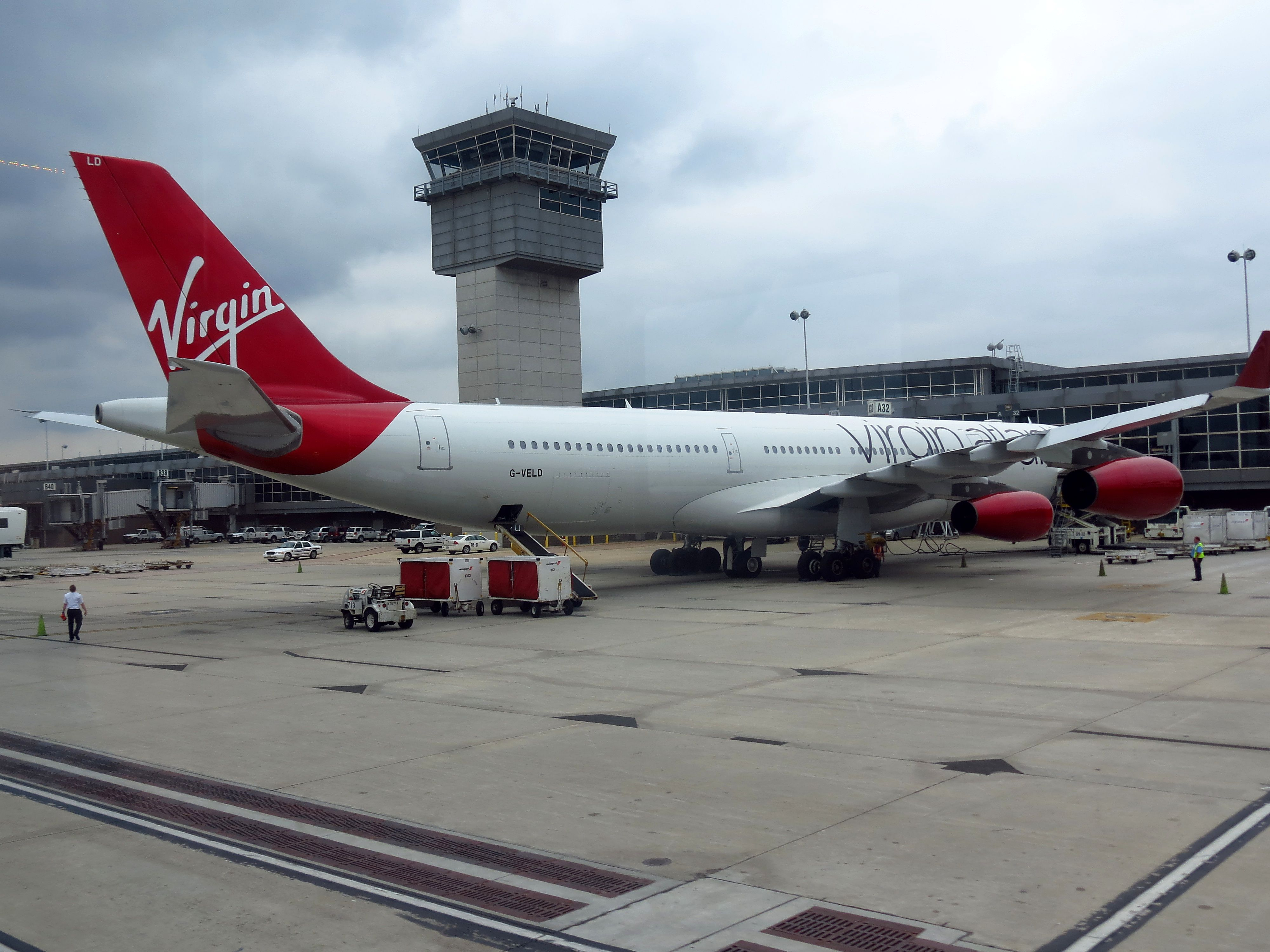 Virgin Atlantic Airbus A340-300 Washington Dulles International Airport